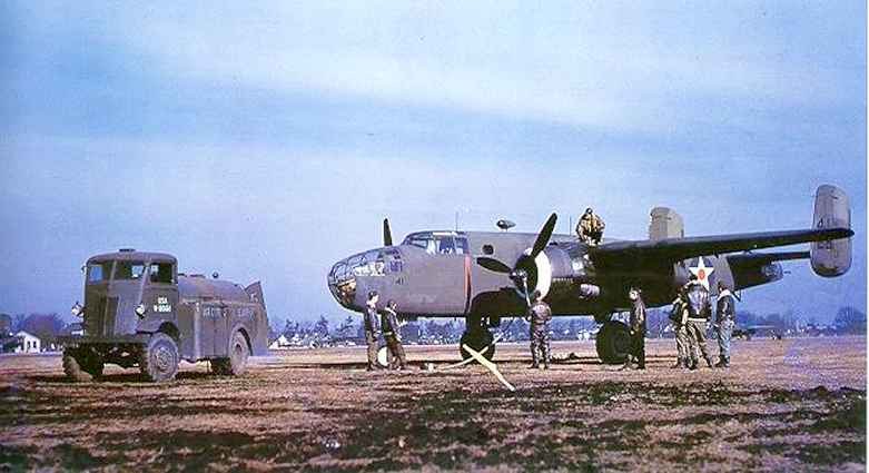 This image is from the World War 2 in Color collection and has been released for public use. The original image is found on:[1]